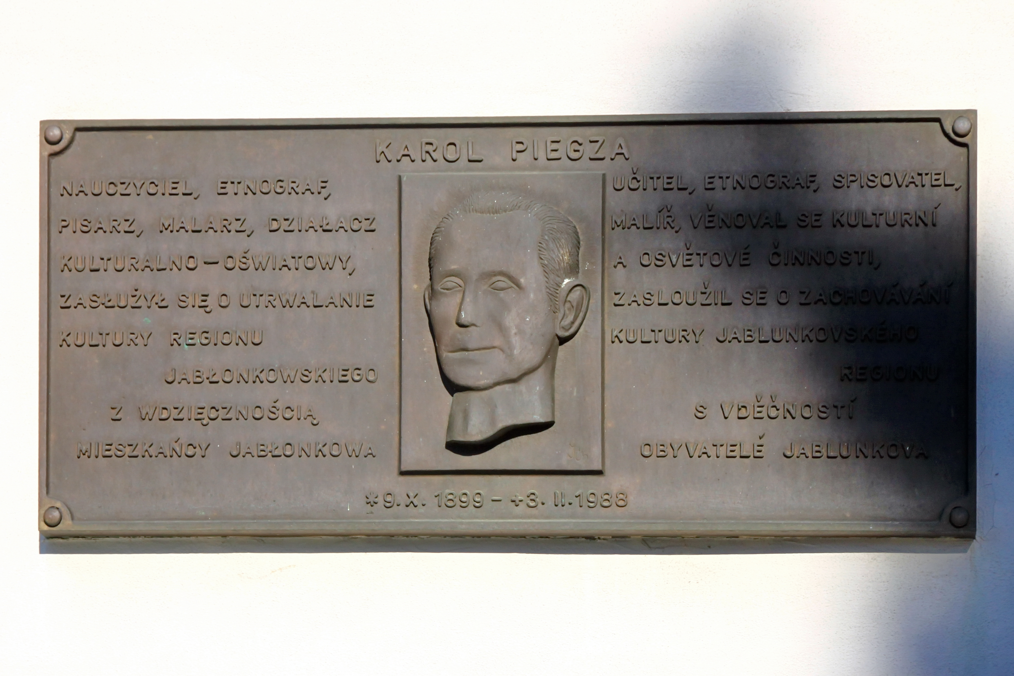 A plaque on the building. House, 18 Mariánské náměstí. Polish Cultural and Educational Union in Jablunkov. Jablunkov, Moravian-Silesian Region, Czech Republic.